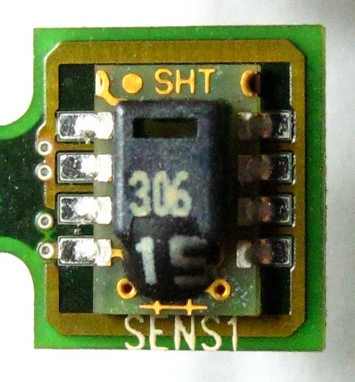 Capacitive humidity sensor SHT soldered on a PCB (Size approx 7 mm x 7 mm)